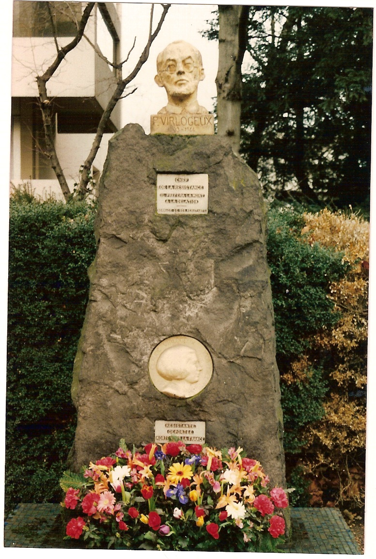 Monument in memory of Pierre Virlogeux and Claude Rodier, French Resistants who died "for France" in 1944, located in Riom, Puy-de-Dôme, France